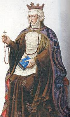 Berenguela of Castile, daughter of Alfonso VIII of Castile and mother of Ferdinand III of Castile and Lion.